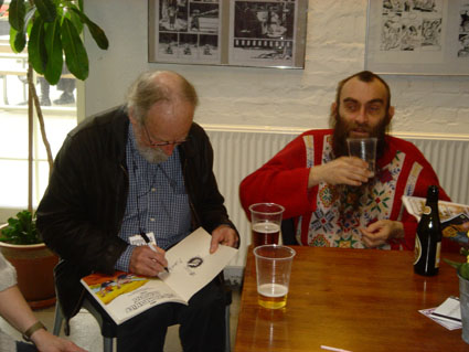 Gilbert Shelton and Rune T. Kidde, at the Komiks.dk 2006 comics festival in København, Denmark.